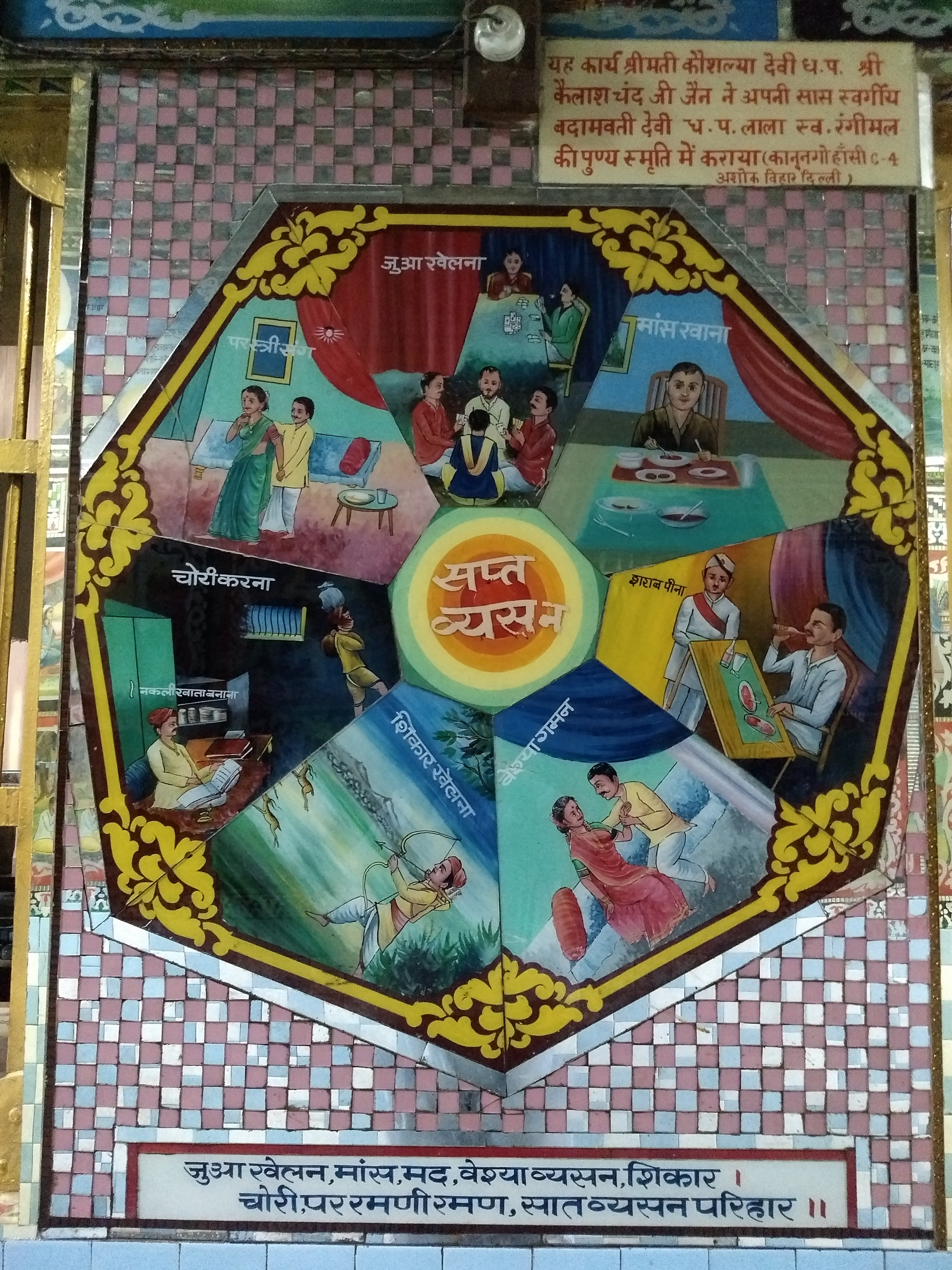 Tijara Jain temple paintings